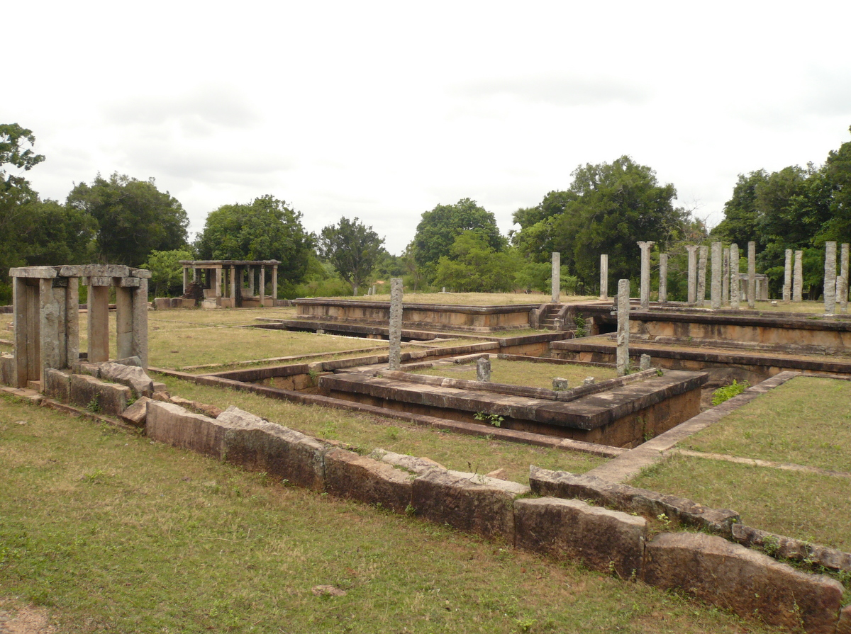 Padanaghara in Anuradhapura, Sri Lanka. These were small monasteries made of stone with wooden roofs and walls, used for secluded meditation practice in ancient Anuradhapura.